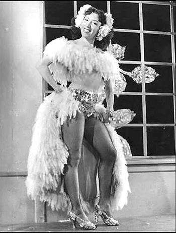 Juanita Martínez - actress and vedette